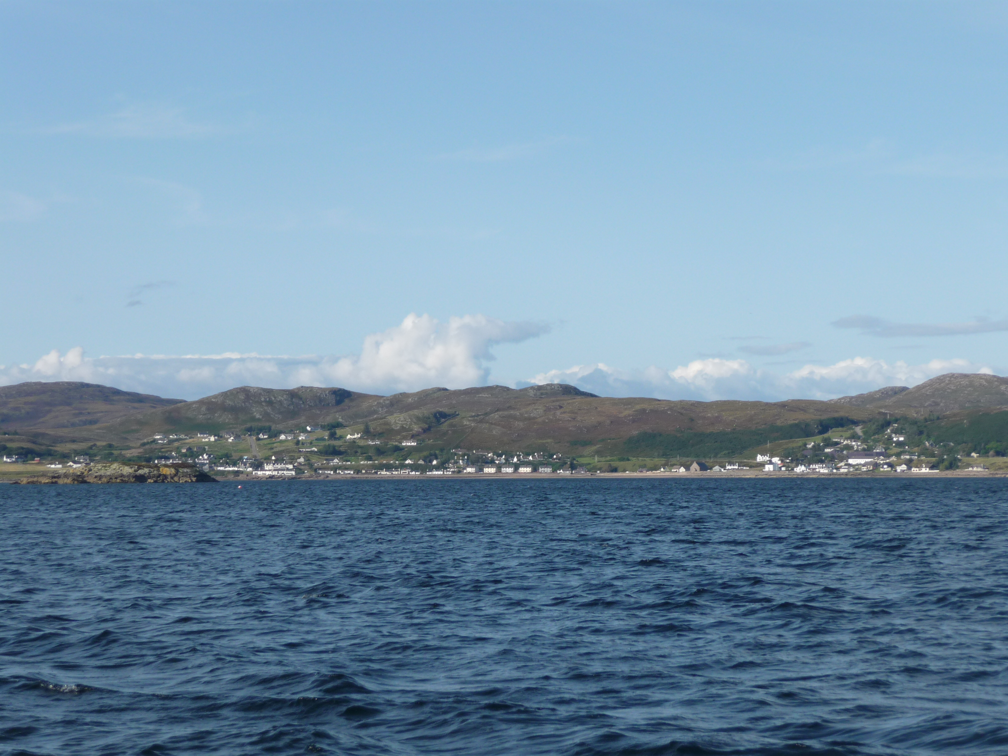 Picture taken from my dads boat looking across the loch to Gairloch.